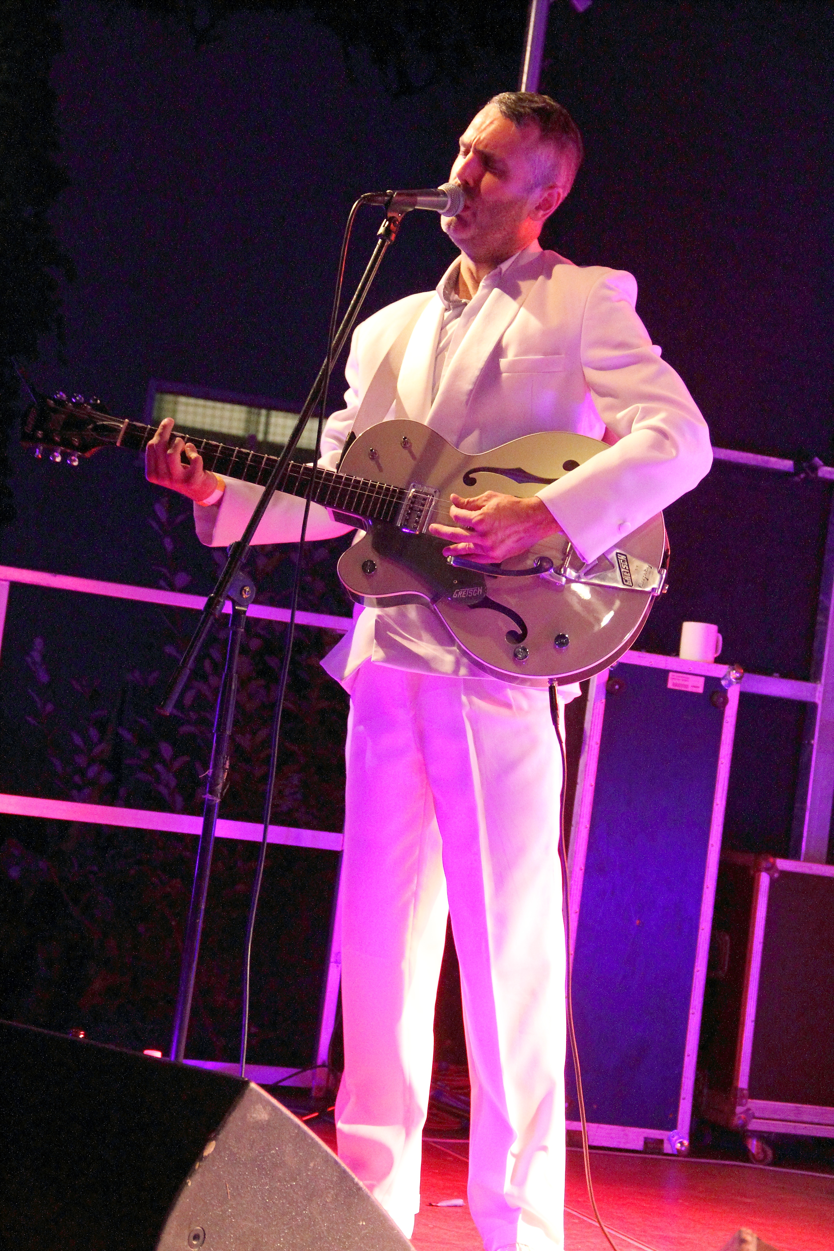 The Hidden Cameras in concert at the summer festival on the occasion of 50th anniversary of Manufaktur Schorndorf.